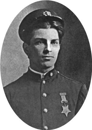 Sergeant William Charles Horton, United States Marine Corps, was awarded the Medal of Honor for his actions during the Boxer Rebellion